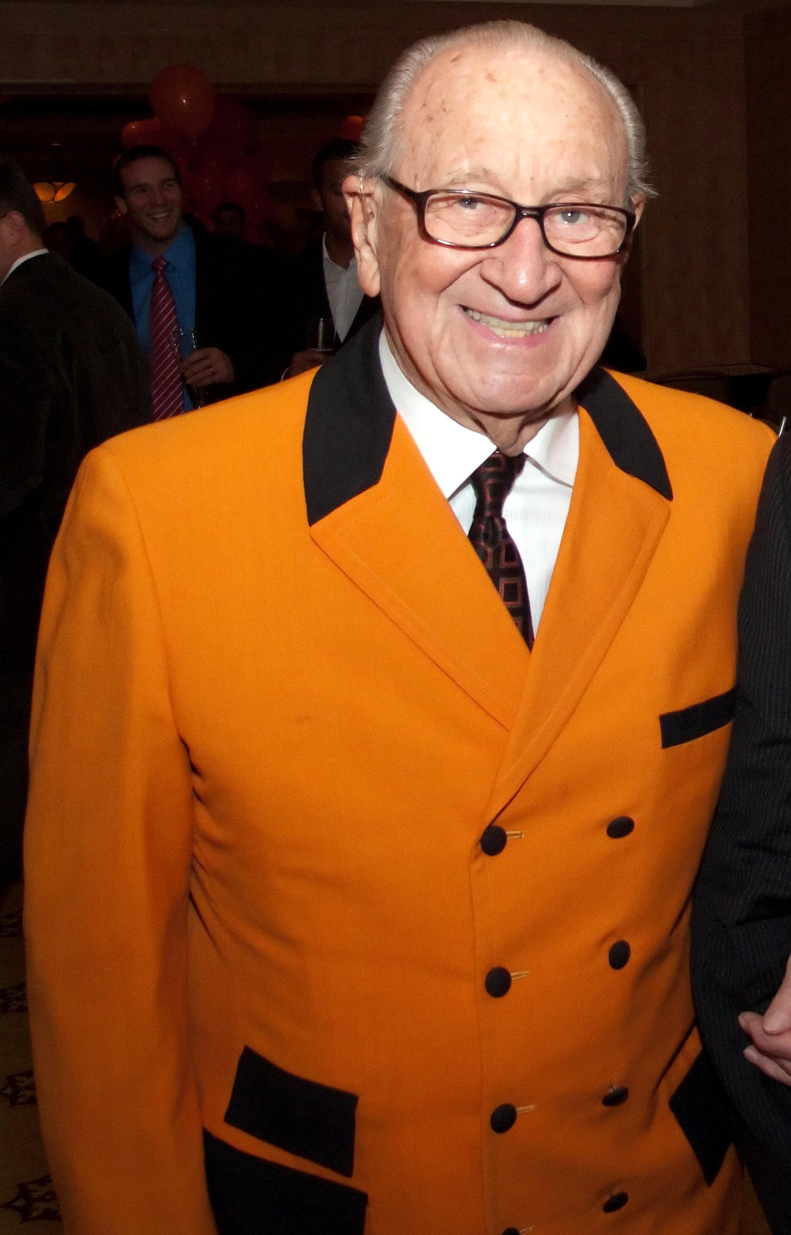 Dal Richards at the sixth-annual Orange Helmet Awards Dinner in the Westin Bayshore Hotel in Vancouver, Canada.